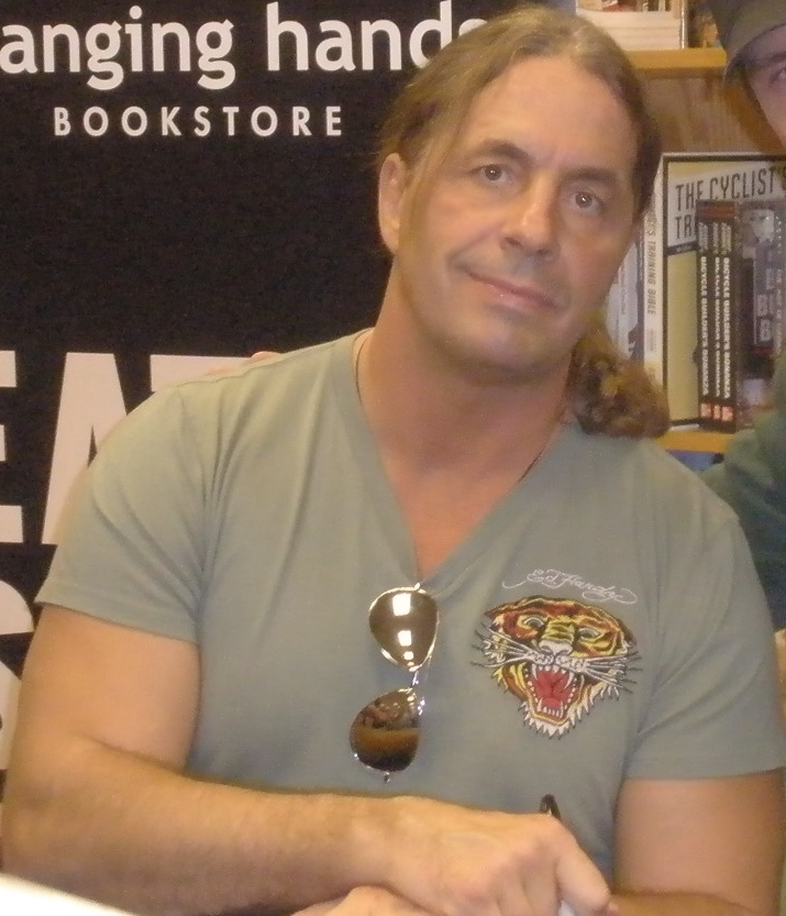 Hart at a book signing in 2010.